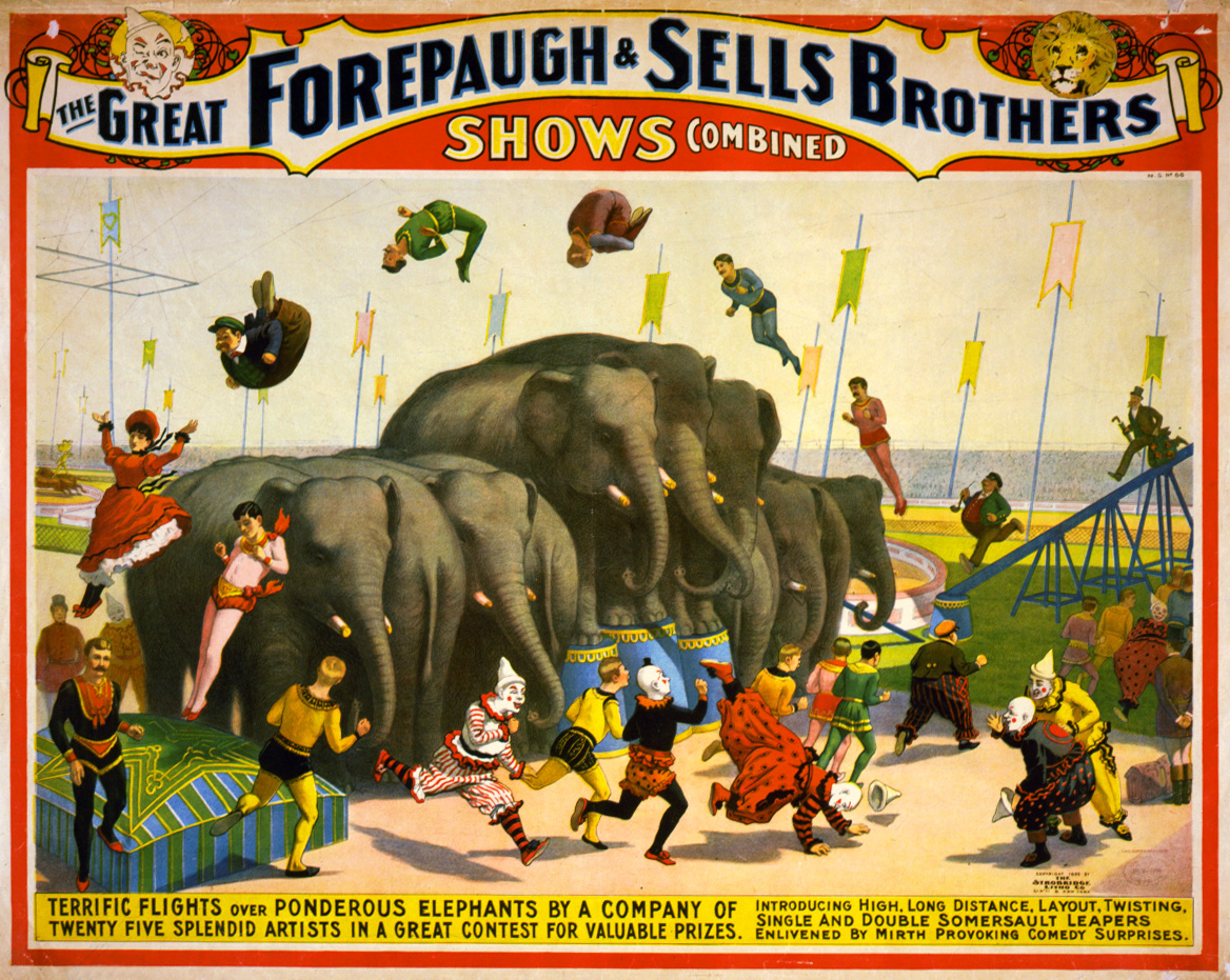 The great Forepaugh & Sells Brothers shows combined. Terrific flights over ponderous elephants by a company of twenty five splendid artists in a great contest for valuable prizes, introducing high, long distance, layout, twisting, single and double somersault leapers, enlivened by mirth provoking comedy surprises. Promotional poster for Forepaugh & Sells Brothers circus by the Strobridge Lithographic Co., ca. 1899. From the Performing Arts Poster Collection at the Library of Congress More circus posters | More performing arts posters